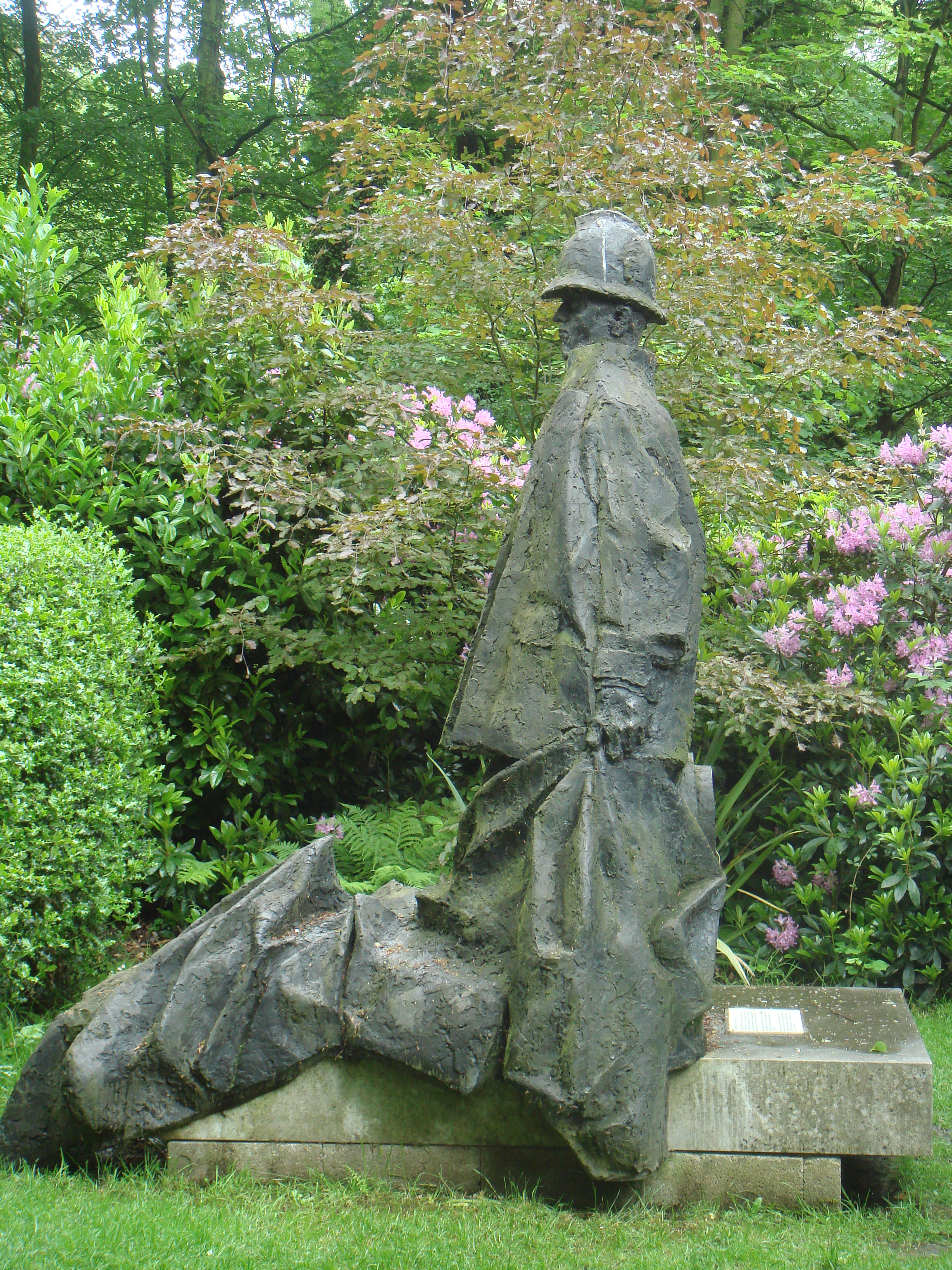 Ivor Roberts-Jones RA created this statue to commemorate the Policemen who lost their lives. The statue is named "Policeman" and stands in the gardens at Renishaw Hall